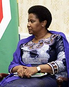 Phumzile Mlambo-Ngcuka, Vice President of South Africa, during the official visit of Vladimir Putin, President of Russia, in Capetown, South Africa.